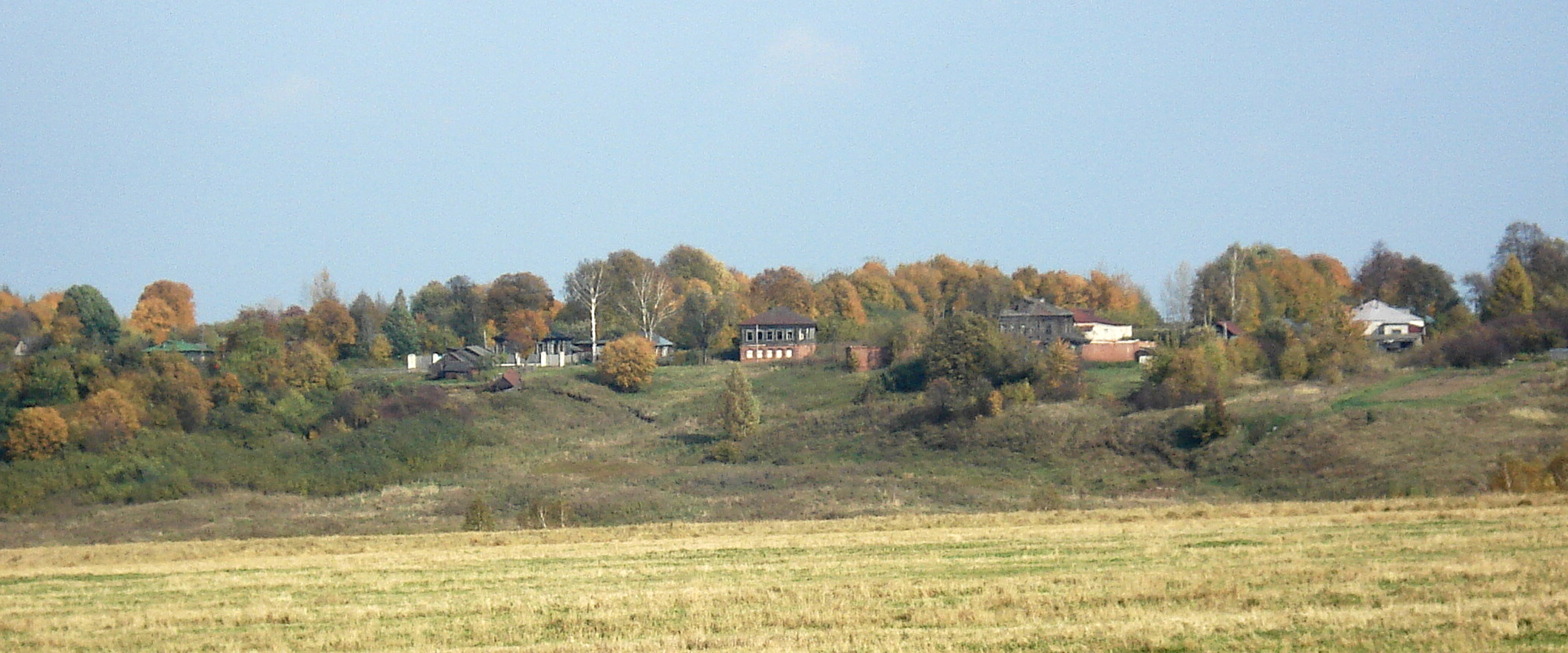 The view on village of Koshkino from the road Fedurino-Chulkovo. Nizhegorodskaya oblast. Russia.